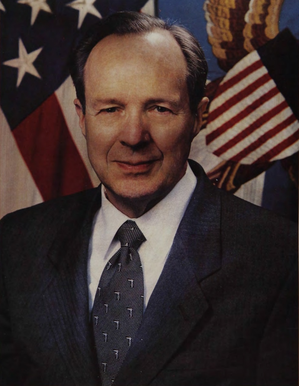 William Perry, former United States Secretary of Defense.